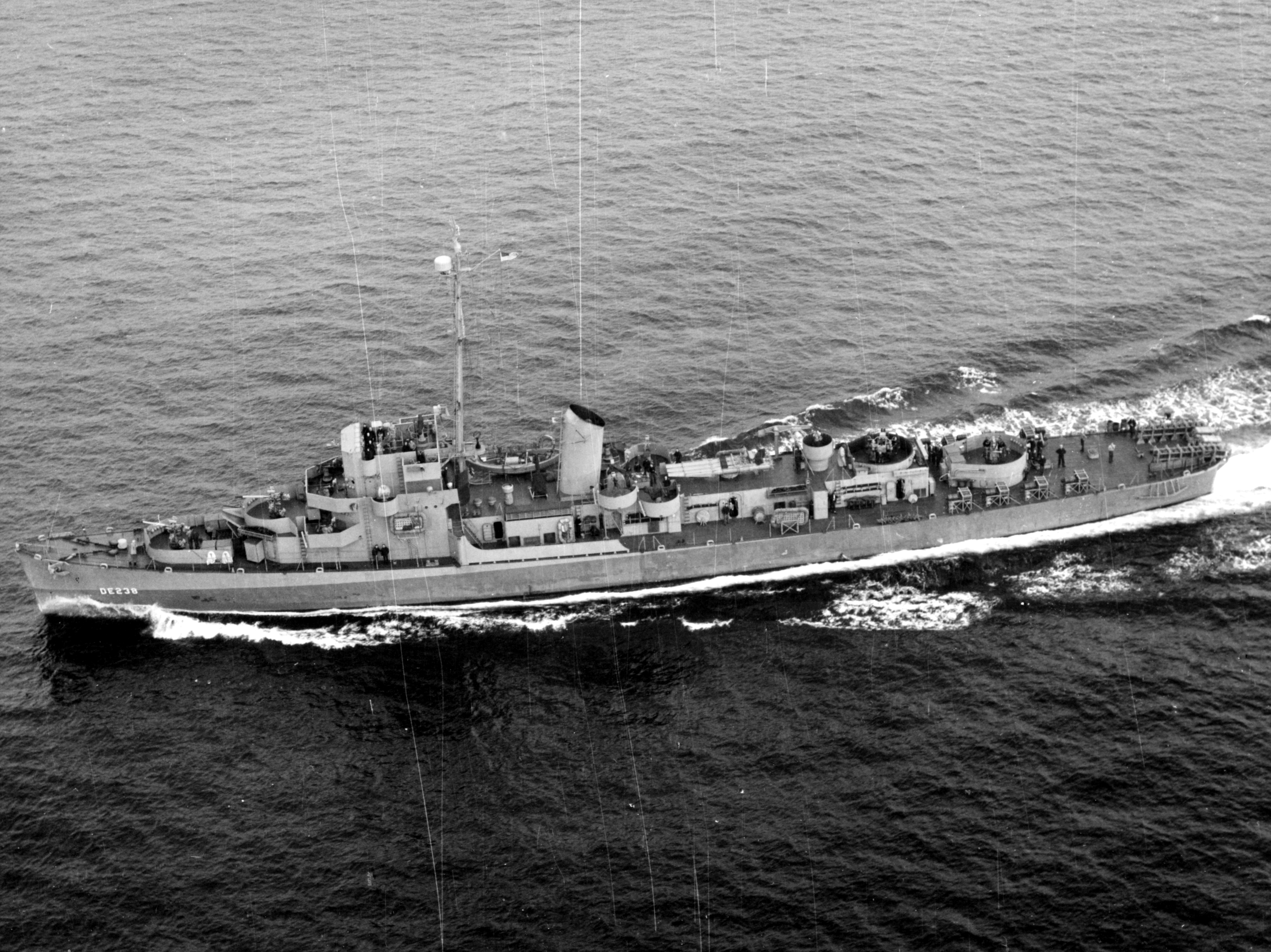 The U.S. Navy destroyer escort USS Stewart (DE-238) underway at sea on 21 November 1943.